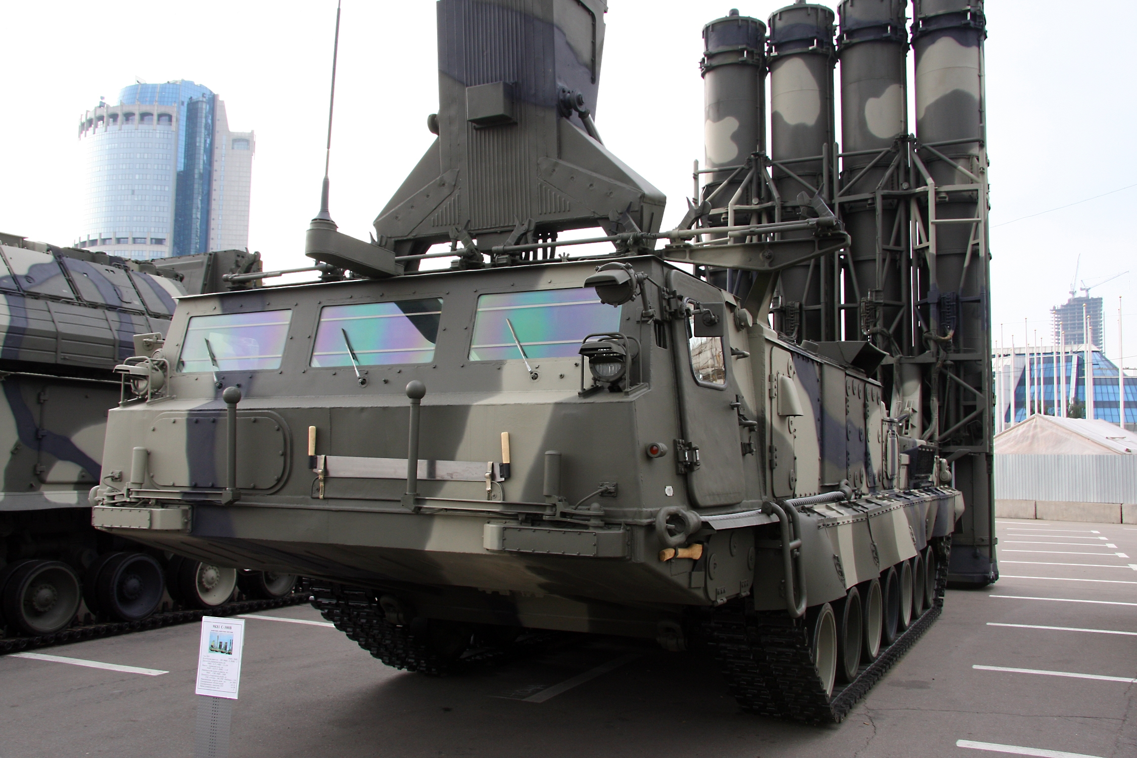 9K81 S-300V launcher at IDELF-2008.